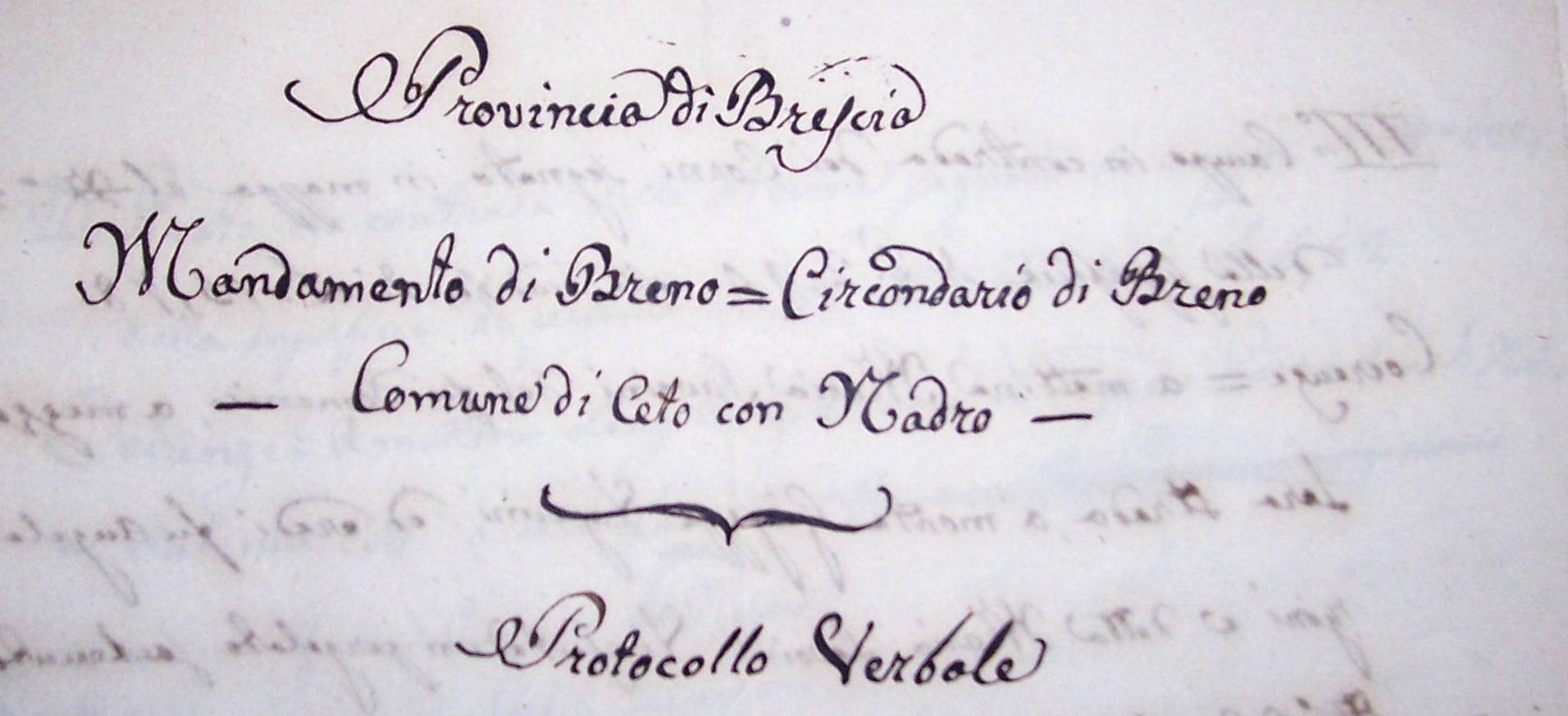 Comune of Ceto and Nadro, Val Camonica